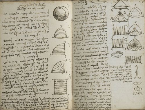 Paris Manuscript E